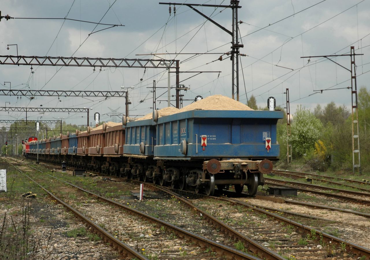 A train with sand at station Szczakowa Północ, Infra SILESIA railway network, Poland